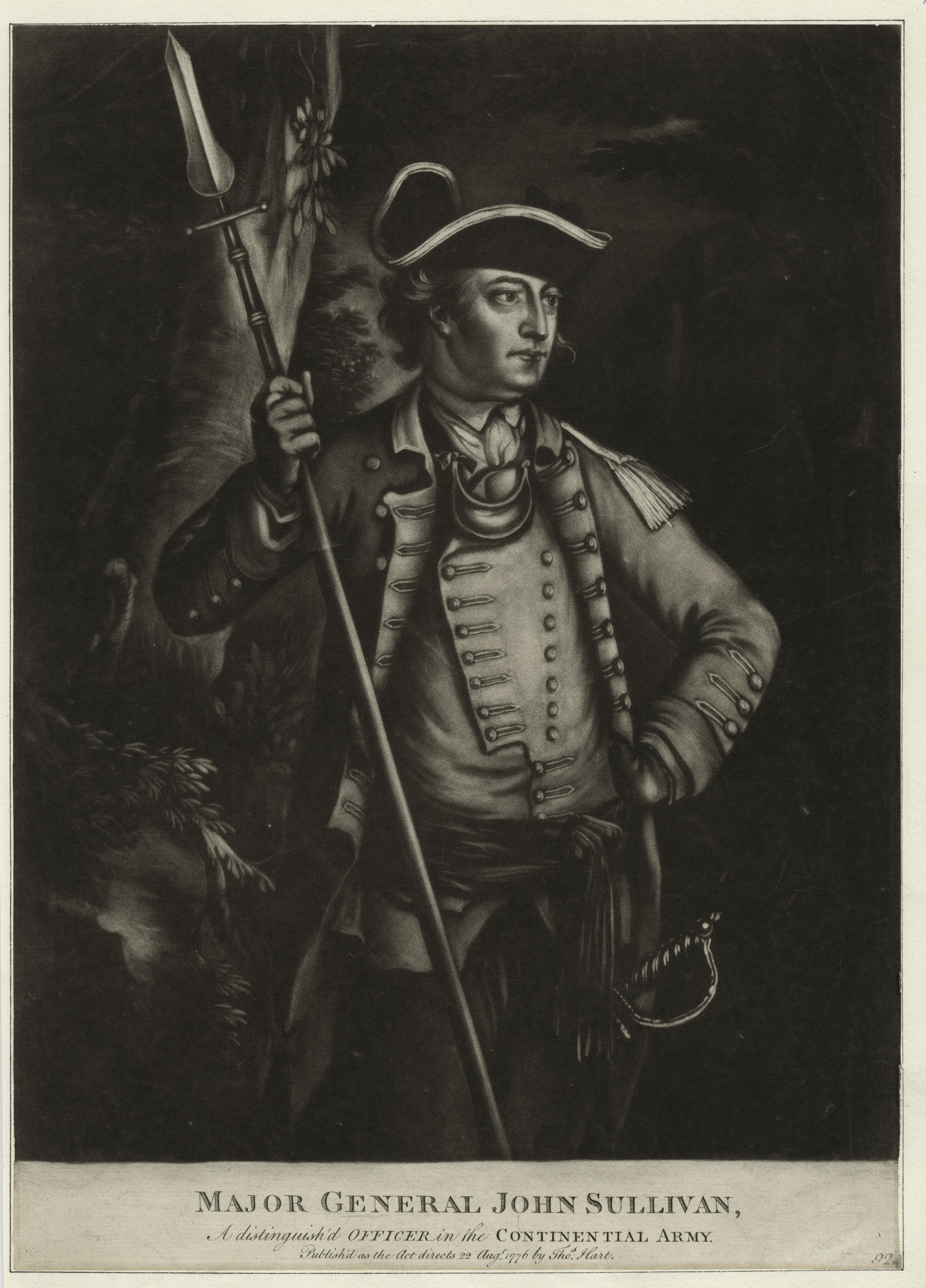 Printmakers include Asher B. Durand, Henry Bryan Hall, Albert Rosenthal and Max Rosenthal. Draughtsmen include David McNeely Stauffer. Title from Calendar of Emmet Collection. Includes some photomechanical reproductions. Citation/reference : EM253